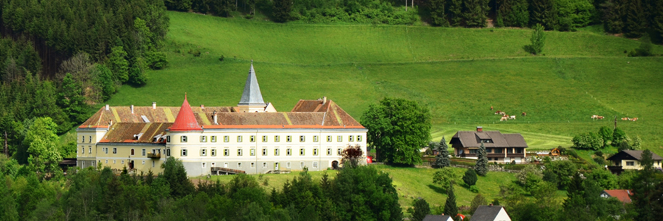 Castle near Knittelfeld in Styria